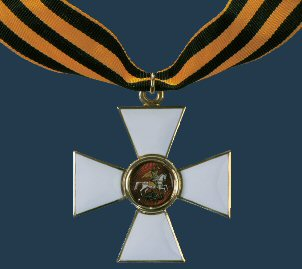 Russian Federation. Order of St George 3rd class. Reinstated after its abolition in 1917, the Order Of Saint George is the supreme military order of Russia, awarded to officers for brilliant military operations. It has four degrees (I through IV, the first being the highest) awarded successively.